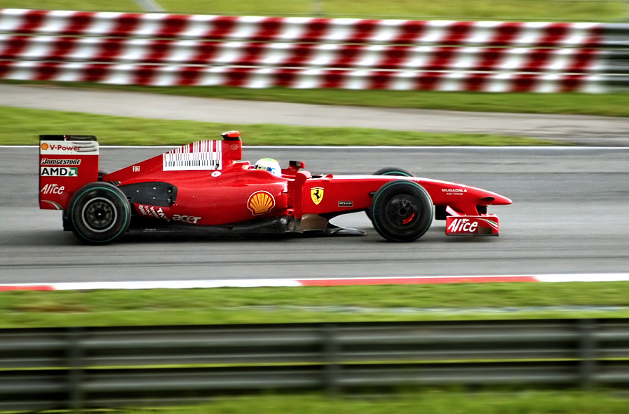 Felipe Massa at 2009 Malaysian Grand Prix, Sepang, Malaysia.